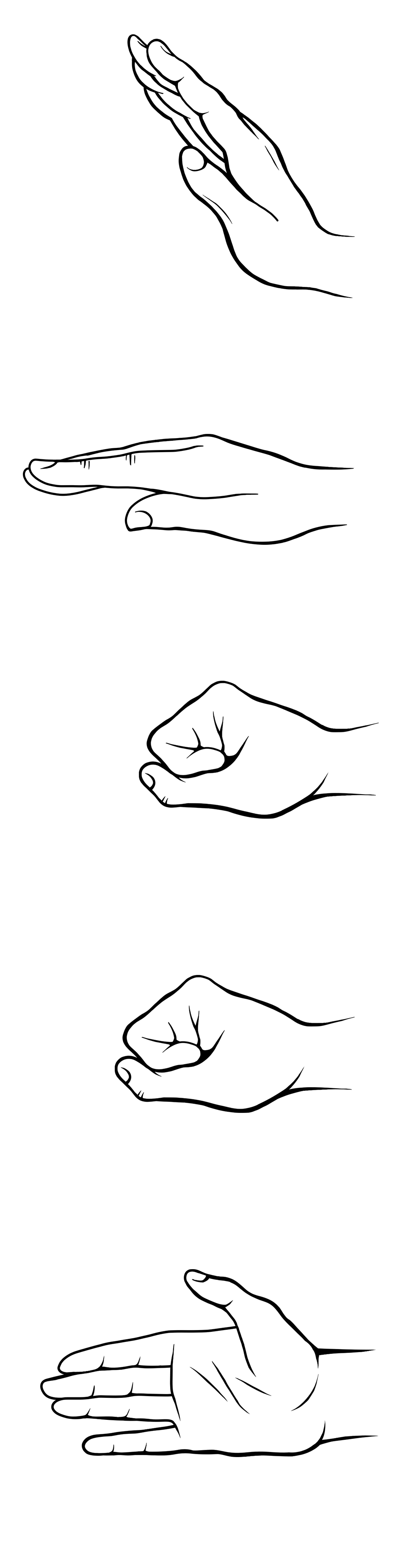 Curwen hand signs that correspond to the five-note alien tonal phras (Re - Mi - Do - Do - Sol) used by the character Claude Lacombe in the final part of Close Encounters of the Third Kind.